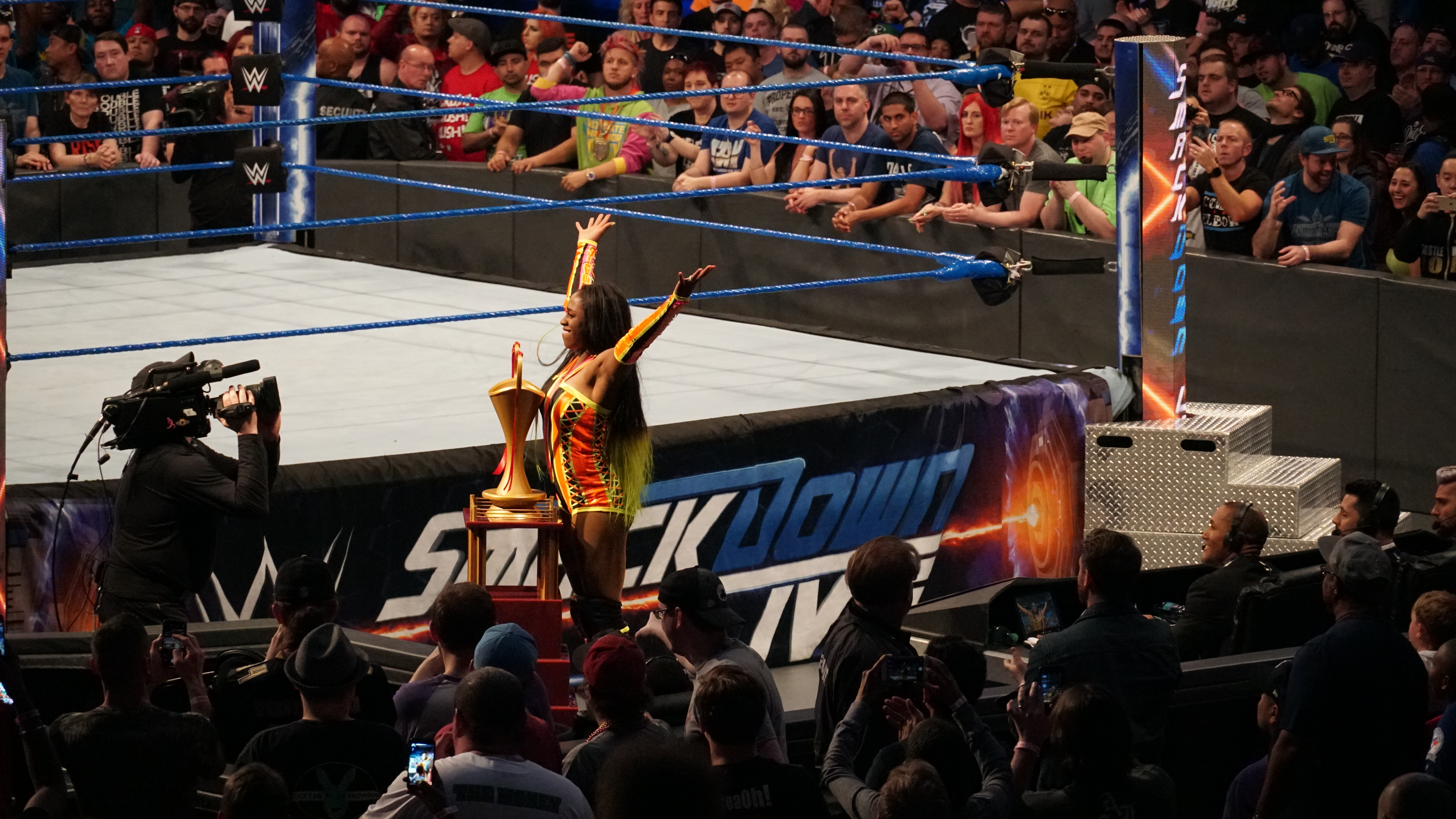 NOLA 2018 - WWE Smackdown Live - Naomi Vs Natalya Naomi def. (pin) Natalya (in 07:30) ( Deux semaines a Nola pour la ville et pour WWE Wrestlemania XXXIV Two weeks Nola for the city and for WWE Wrestlemania XXXIV )